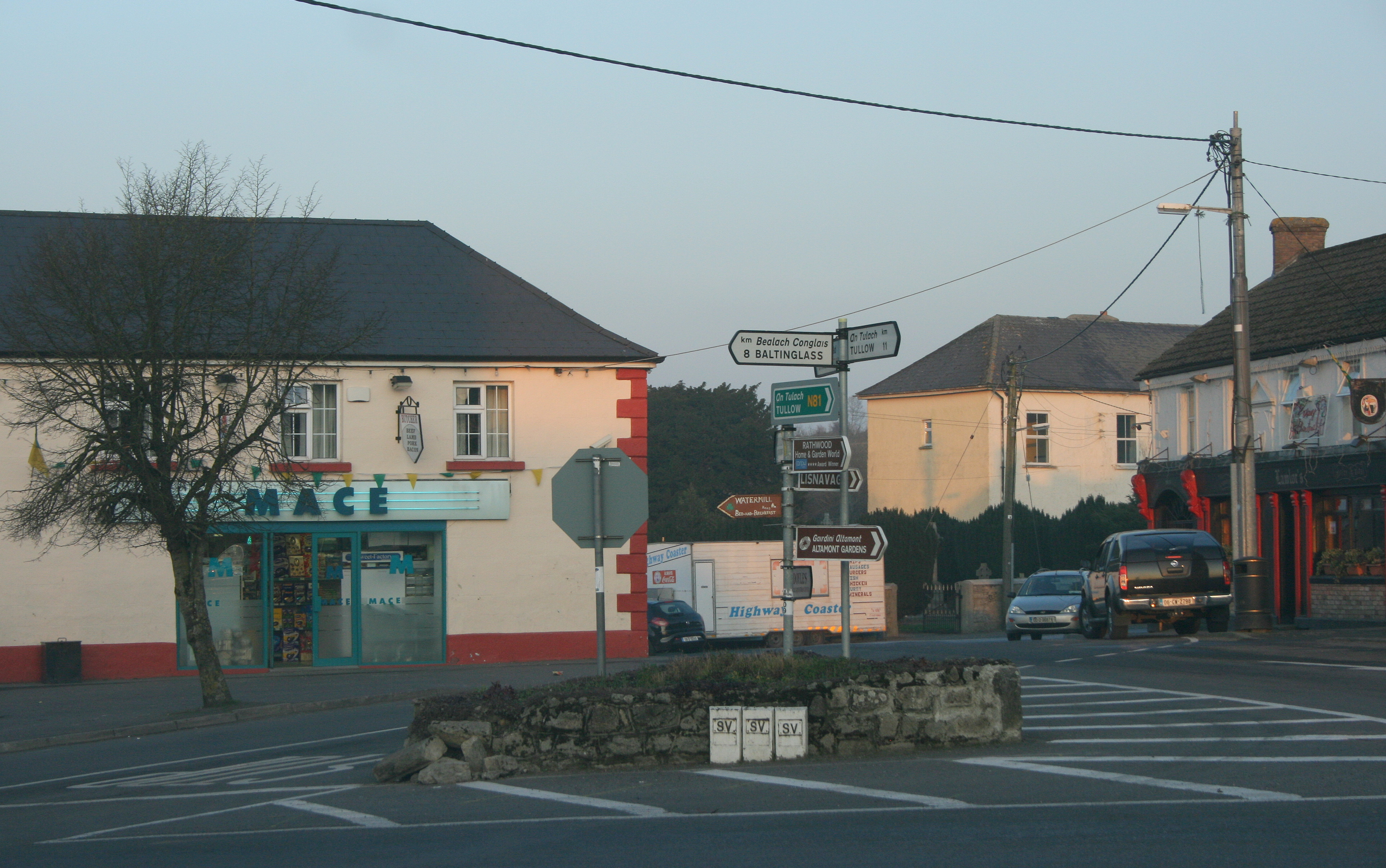 Rathvilly, County Carlow, Ireland : On the N81 between Baltinglass and Tullow